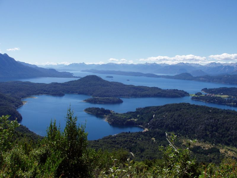 Description : Nahuel Huapi lake view from cerro Lòpez Author : (WT-shared) Gobbler Source : own work Date : 2003.